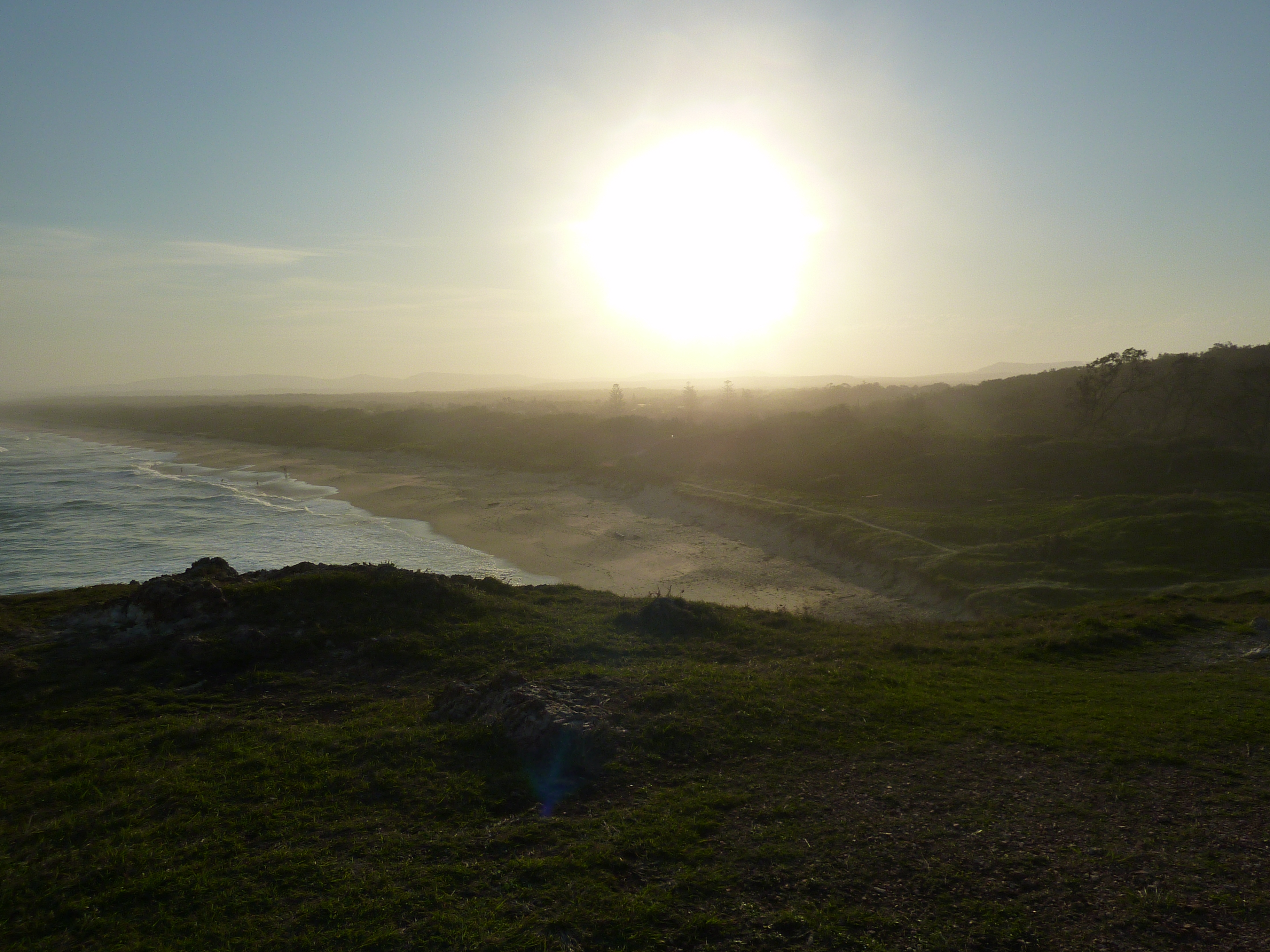 Beach at Red Rock, part of the South Solitary Islands Reserve.